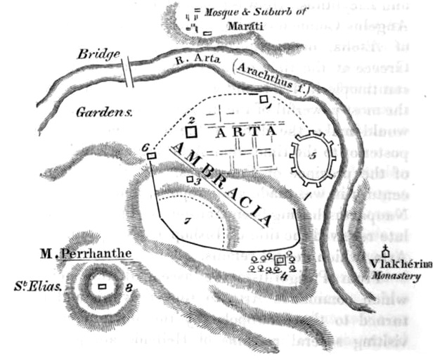 Map of Arta, Greece, William Martin Leake, 1835 1. The Metropolis. 2. Church of Parigoritissa. 3. Ruined windmill. 4. Monastery of Fanaromeni. 5. Modern castle. 6. Church of Odhighitria.7. Ancient Acropolis. 8. Hill commanding that of the ancient Acropolis. -The dotted line shows the ancient walls where the foundations only remain. The entire line, where the remains are more considerable.